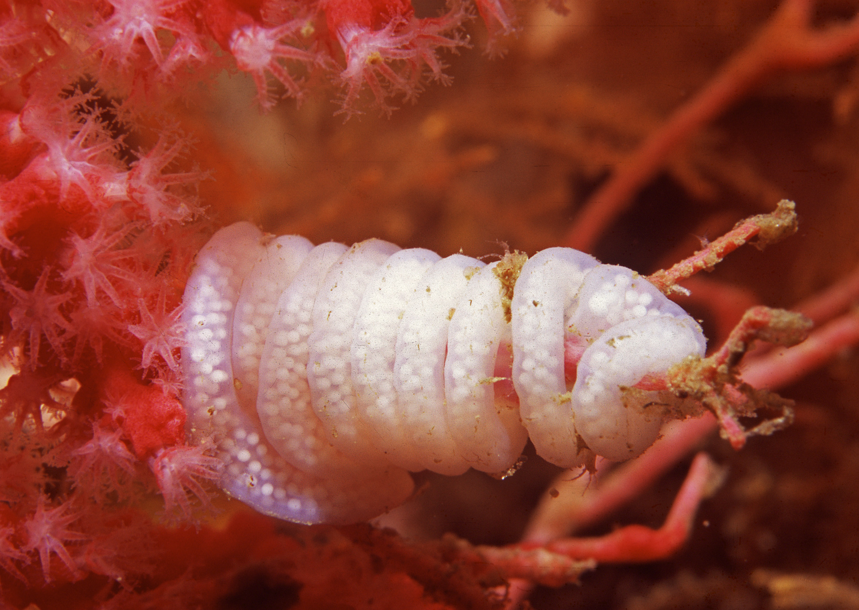 photograph of the egg ribbon of the Frilled nudibranch Leminda millecra taken in False Bay off the South Arican coast in 28m of water, using a Nikonos V camera